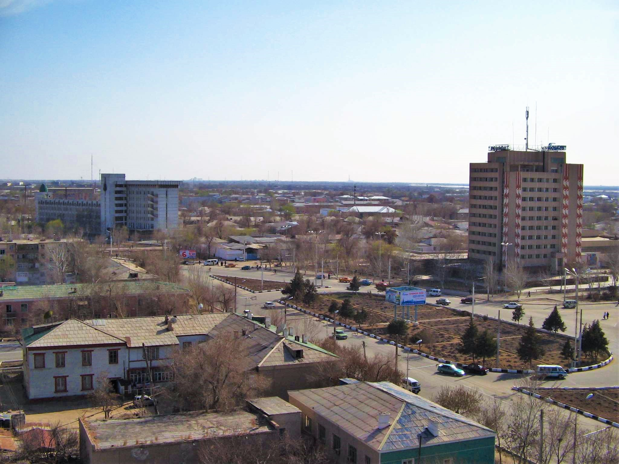 The panorama of Nukus city (Uzbekistan)